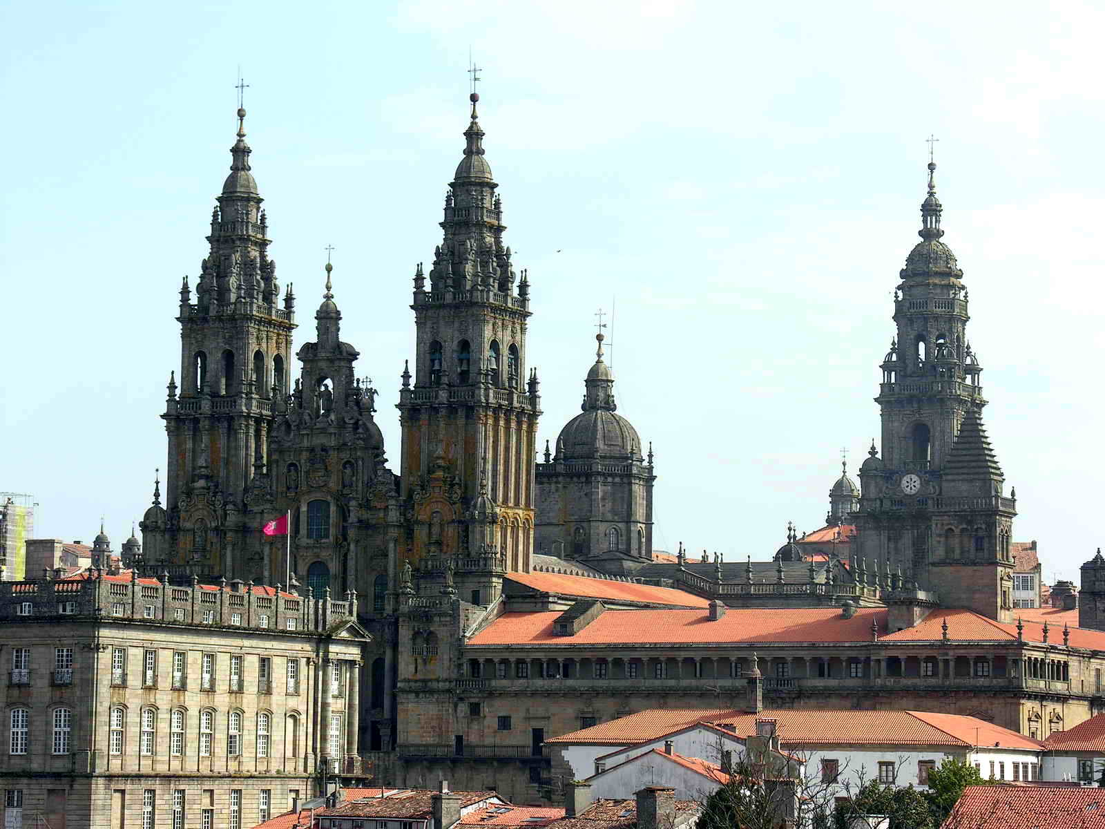 Santiago de Compostela Cathedral (Galicia, Spain).